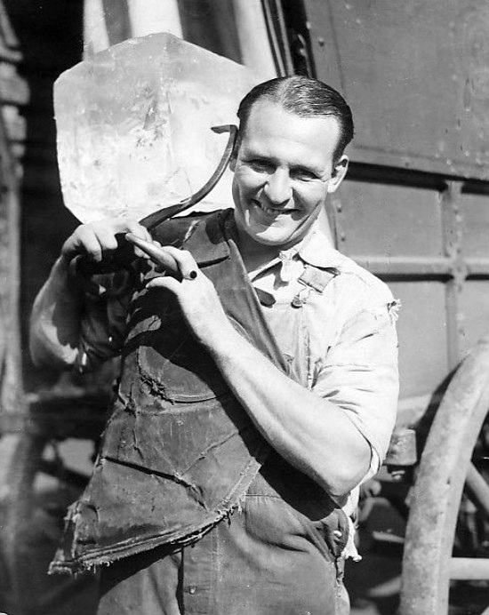 Photo of Red Grange delivering ice in his home town of Wheaton, Il. Grange, who was playing for the Chicago Bears, delivered ice in the football off-season to earn extra money.